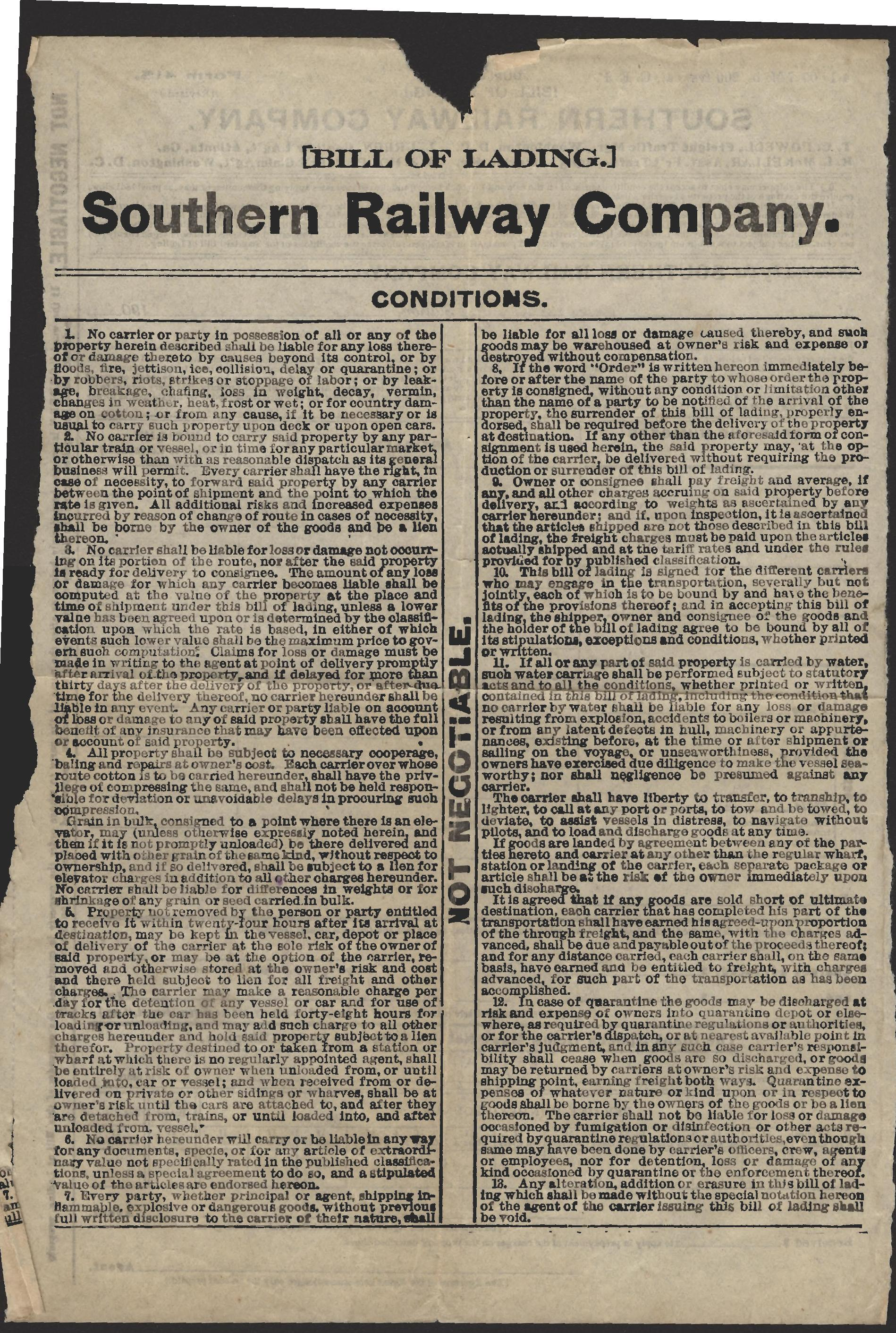 Southern Railway Company Bill of Lading - 1906Image:Bill of Lading - Southern Railway Company front.jpg